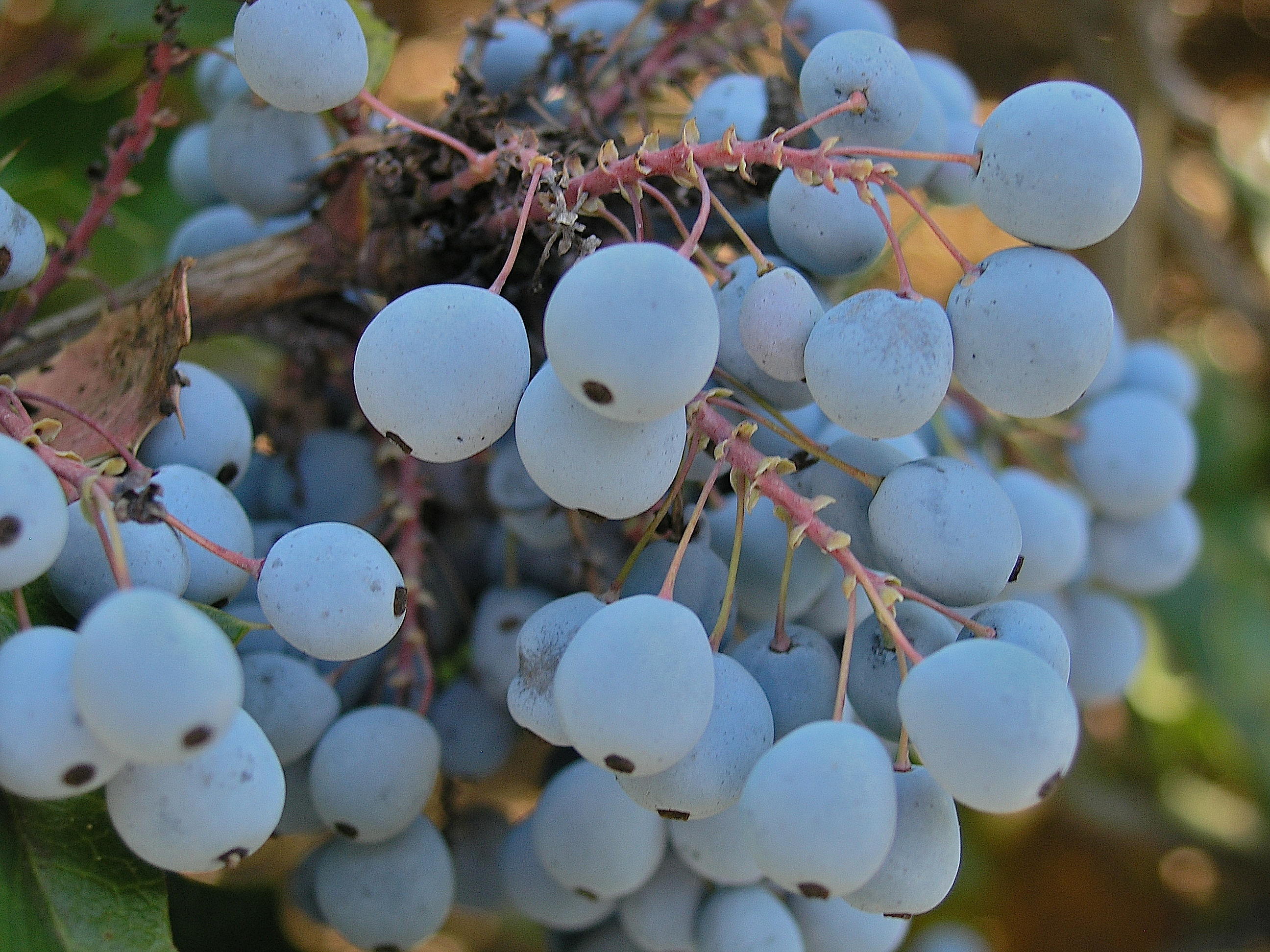 Mahonia - ‘Golden Abundance’ is a cross between several species (including the Oregon Grape, Mahonia aquifolium), and is known for its particularly showy flowers.